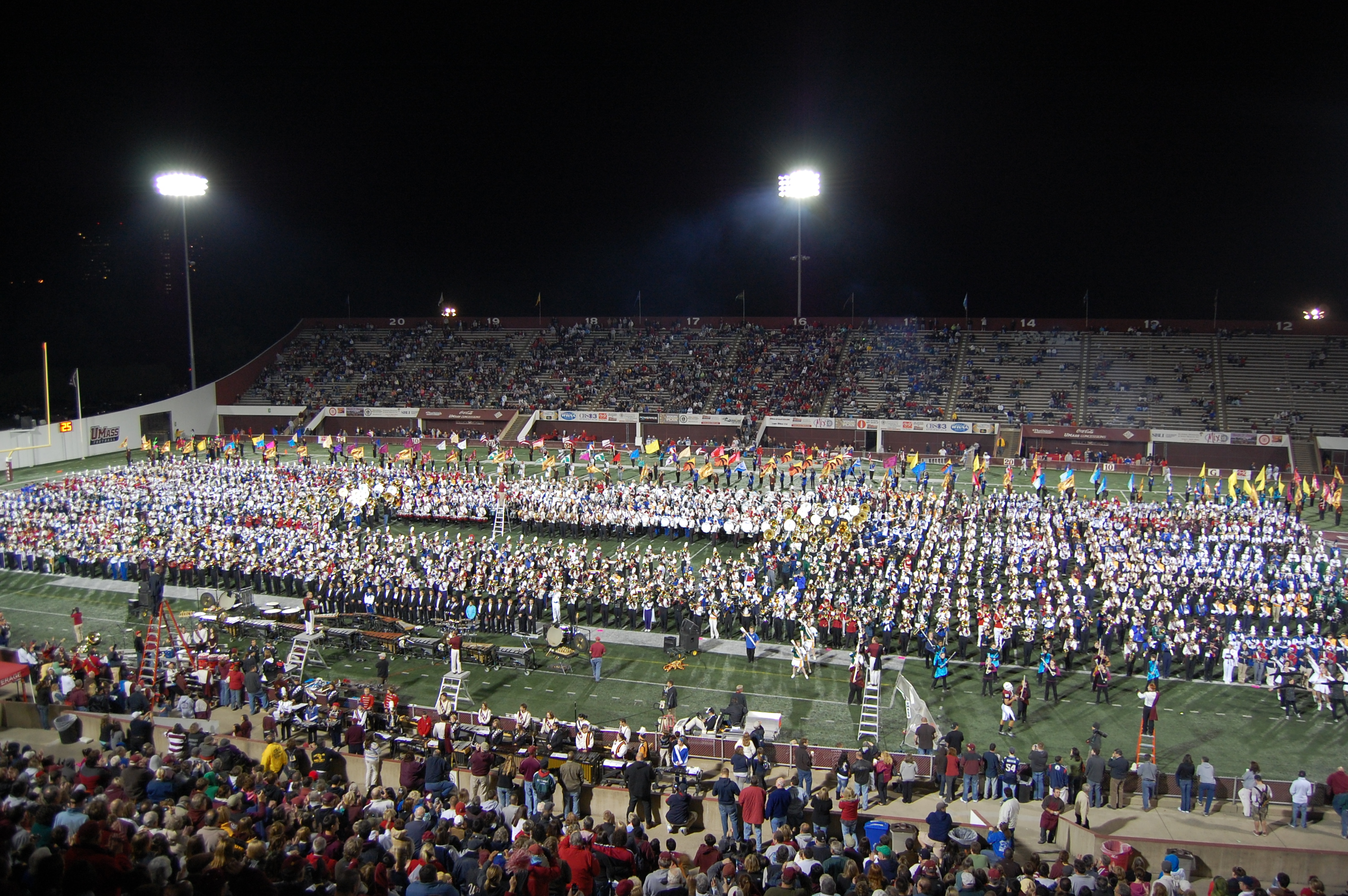 Band Day at the University of Massachusetts Amherst in 2009, where members performed with the University of Massachusetts Minuteman Marching Band.